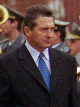 Slovakian Minister of Defense Ivan Simko at the Ministry of Defense complex in Bratislava, Slovakia, on Nov. 22, 2002.